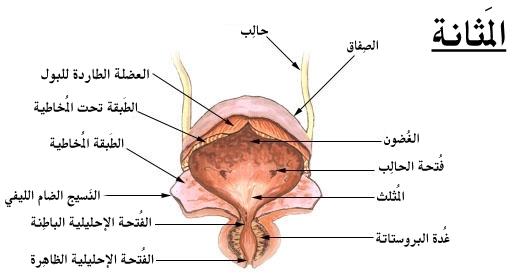 Anatomy of Urinary bladder